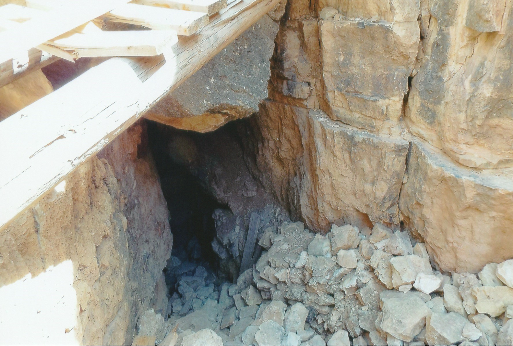 Entrance of the Apache Death Cave.in Two Guns, Arizona.